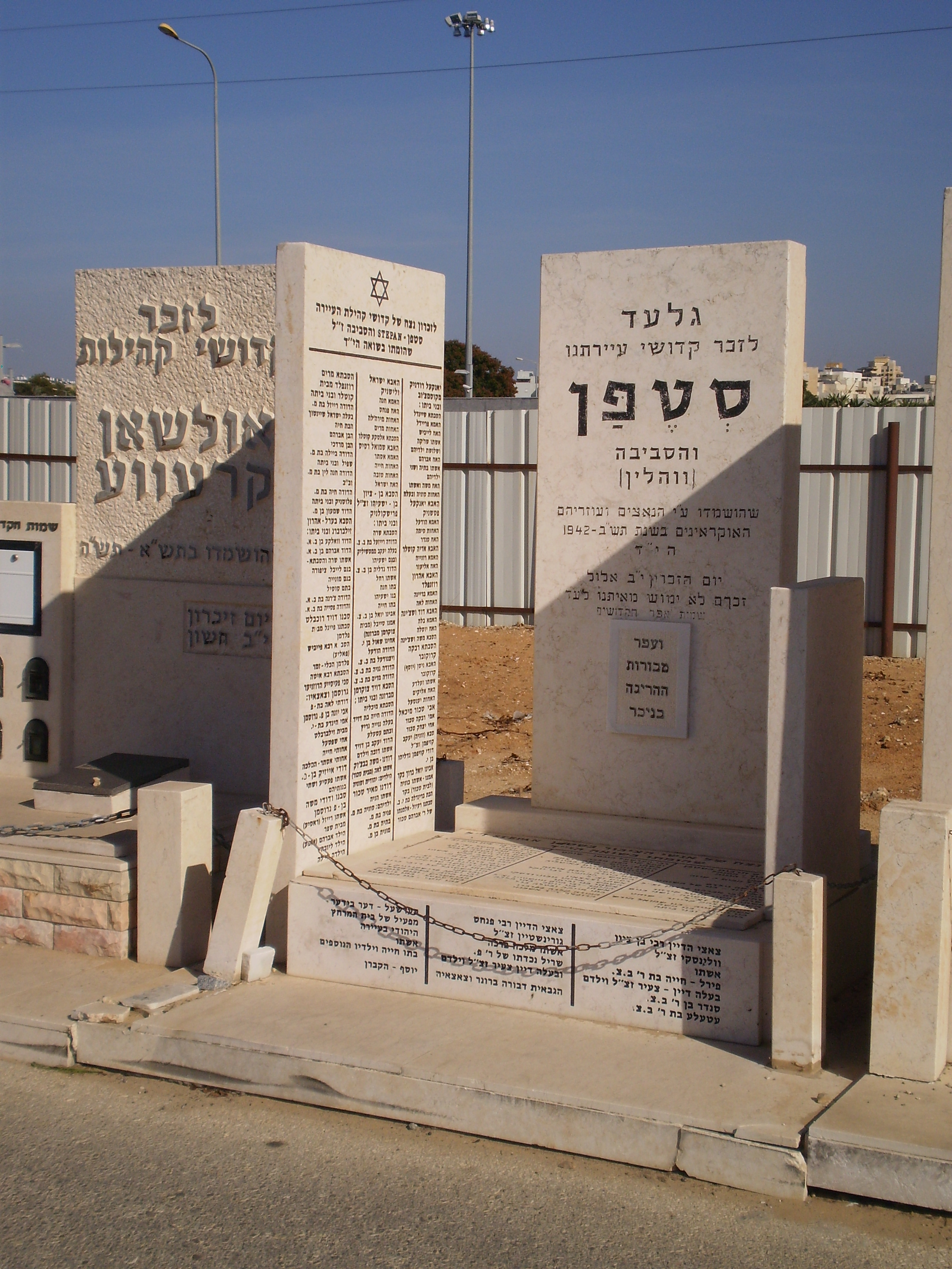 Stepan Jewery Holocaust memorial at Holon Cemetery